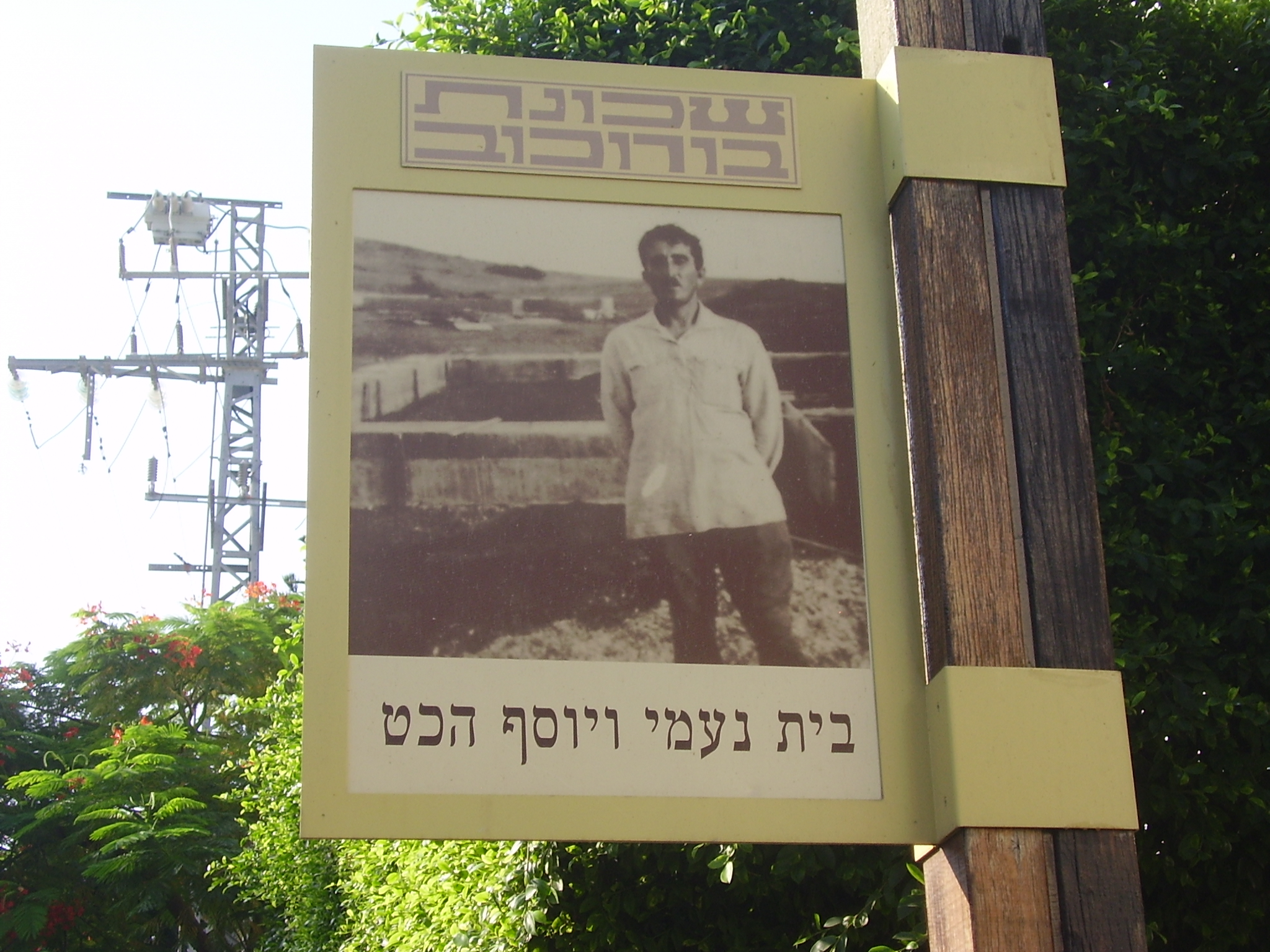 memorial plaques to yosef hecht in borochov neighborhood לוחית זיכרון ליוסף הכט ליד המקום בו עמד ביתו ברח' קרן קיימת 16 בשכונת בורוכוב